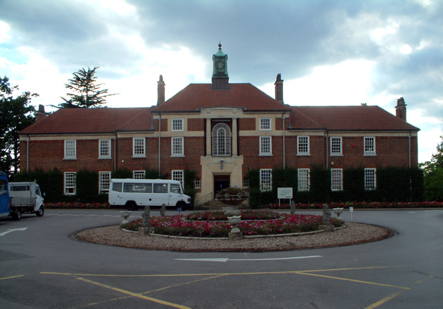 Bethlem Royal Hospital. Bethlem Royal Hospital main entrance is in Monks Orchard Road. The photograph shows the administrative block. Now run by South London and Maudsley NHS Trust, it is a 750 year old psychiatric hospital. Its first site was in Bishopsgate, where it became infamous as "Bedlam".